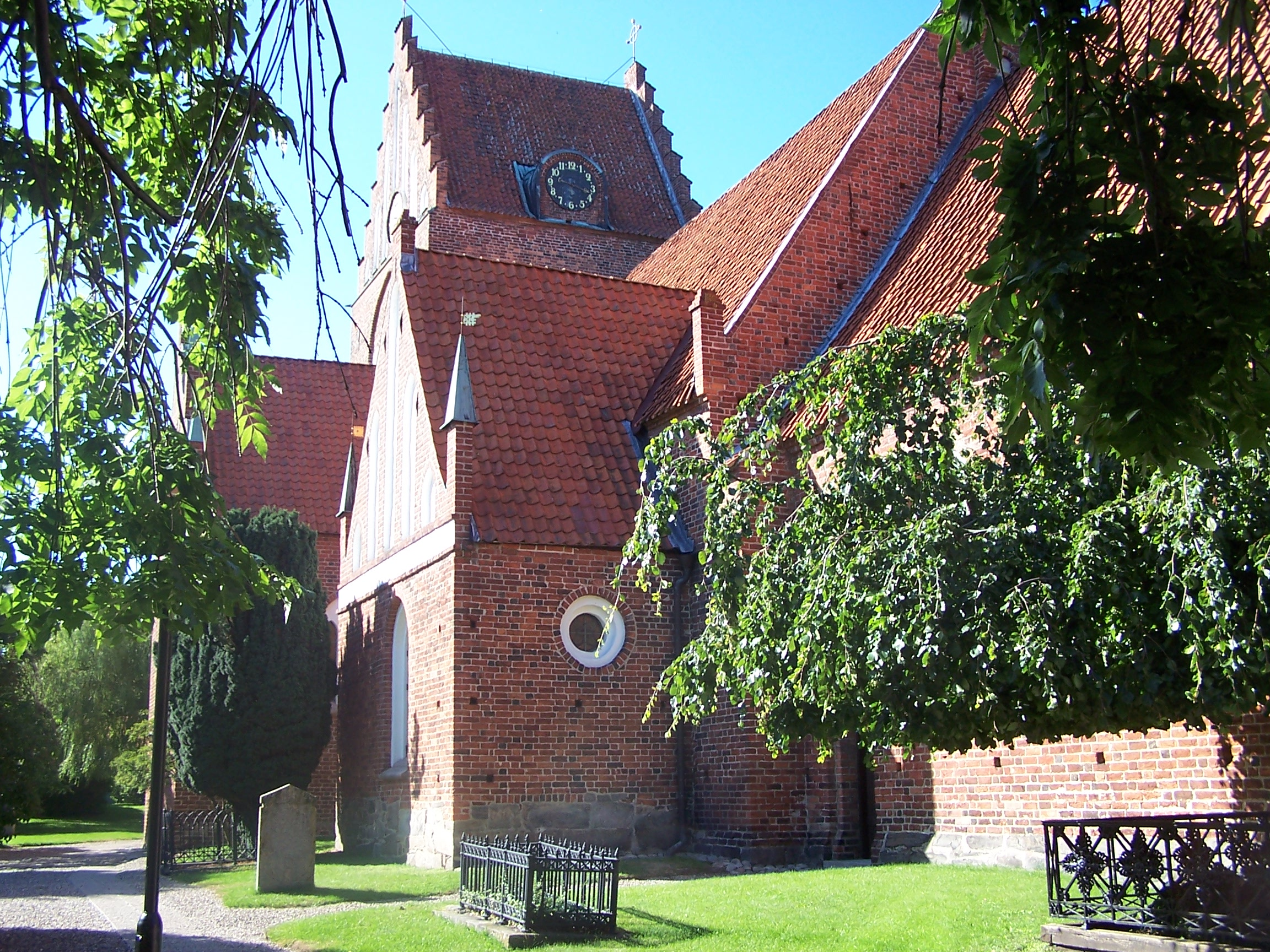 Sankt Nicolai kyrka, Sölvesborg - from southeast.